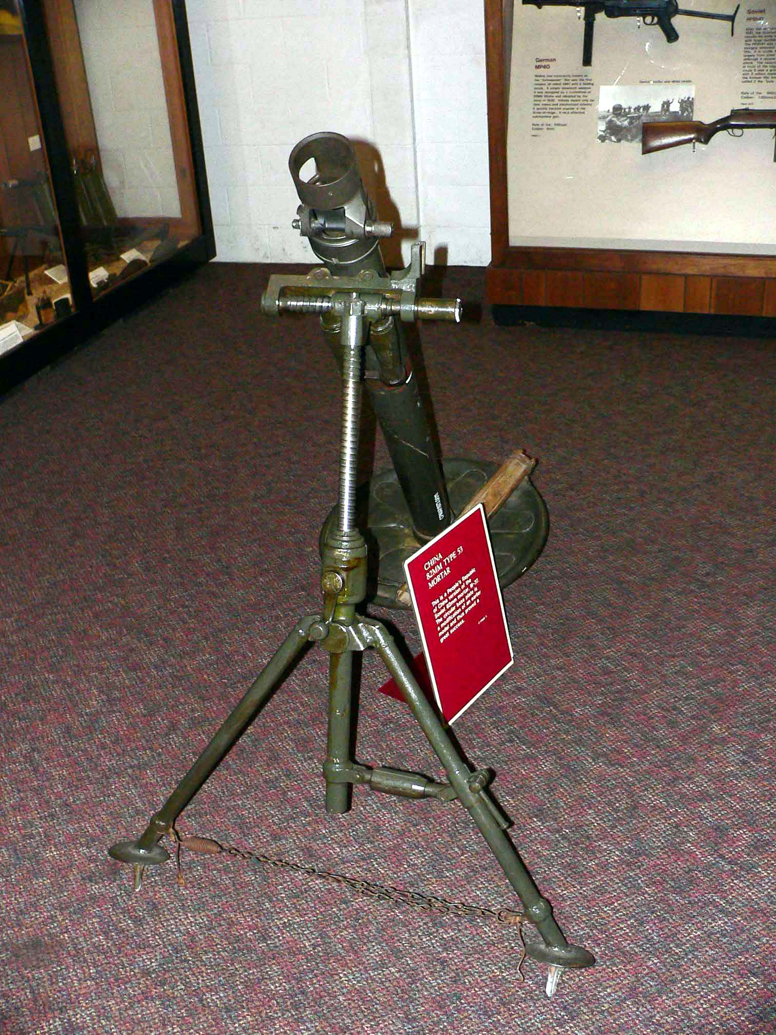 Picture taken by myself, Mark Pellegrini, at the United States Army Ordnance Museum (Aberdeen Proving Ground, MD) on August 14, 2007.